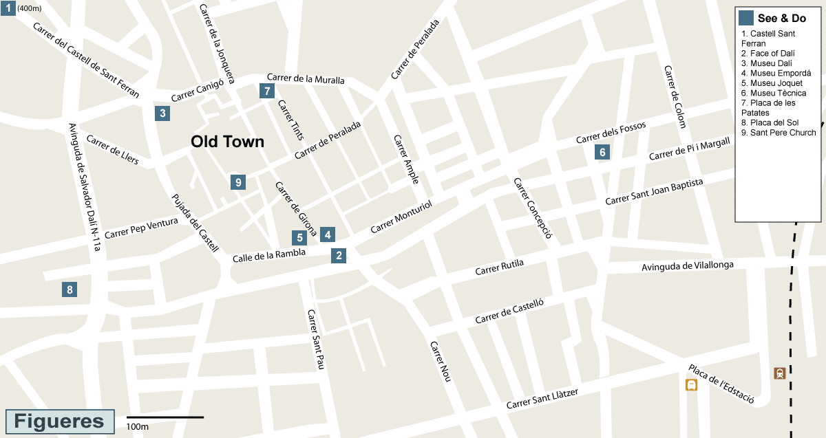 Map of the center of Figueres, Spain. map: Figueres.